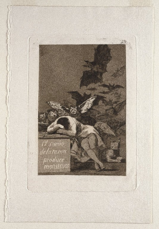 Part of the series Los Caprichos, a set of 80 aquatint prints created by the Spanish artist Francisco Jose de Goya in 1797 and 1798, and published as an album in 1799, no. 43.